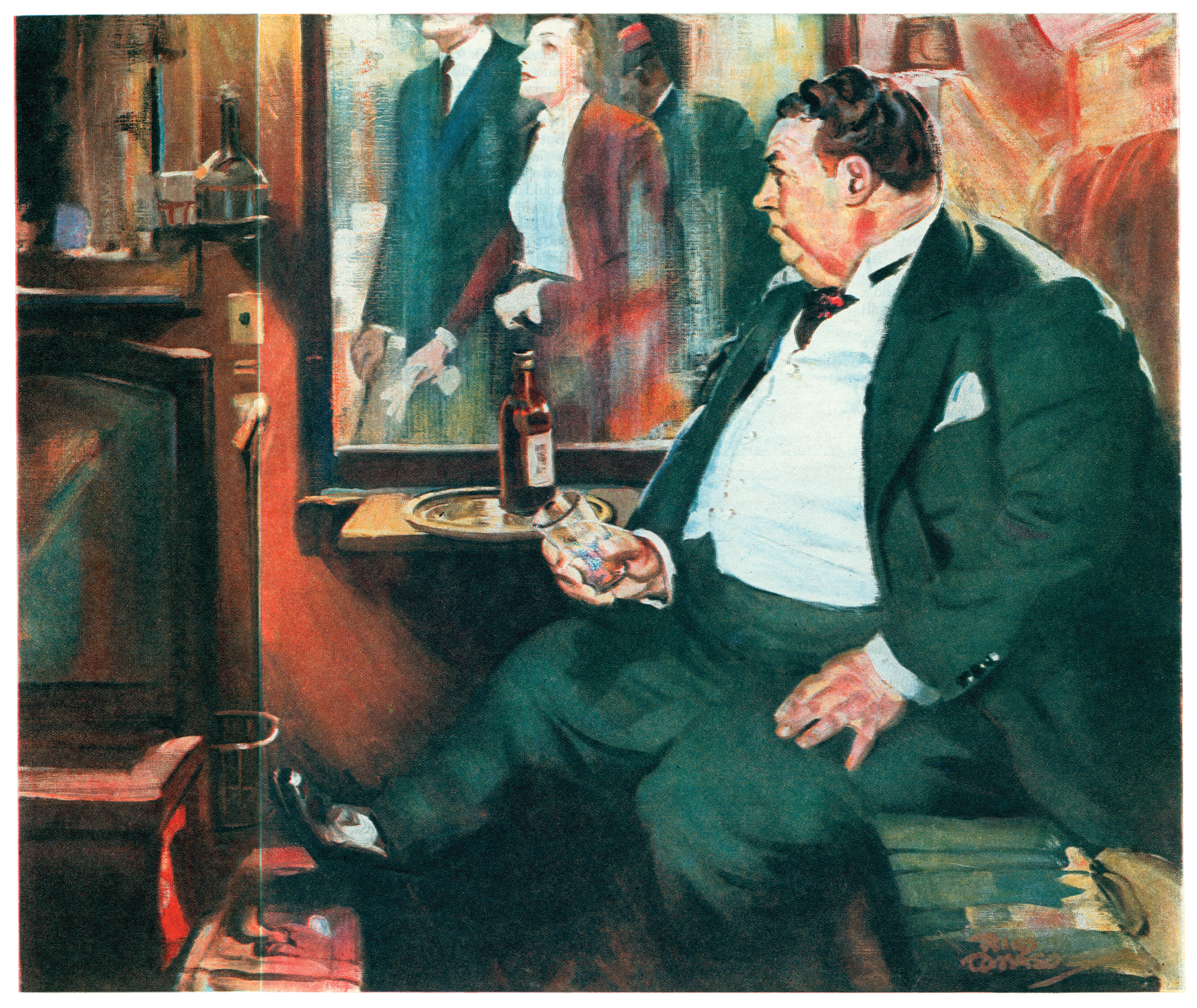 Illustration from The American Magazine printing of Too Many Cooks (1938), a Nero Wolfe novel by Rex Stout, serialized in six installments (March–August 1938)